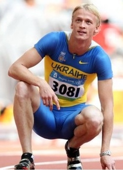 Igor Bodrov